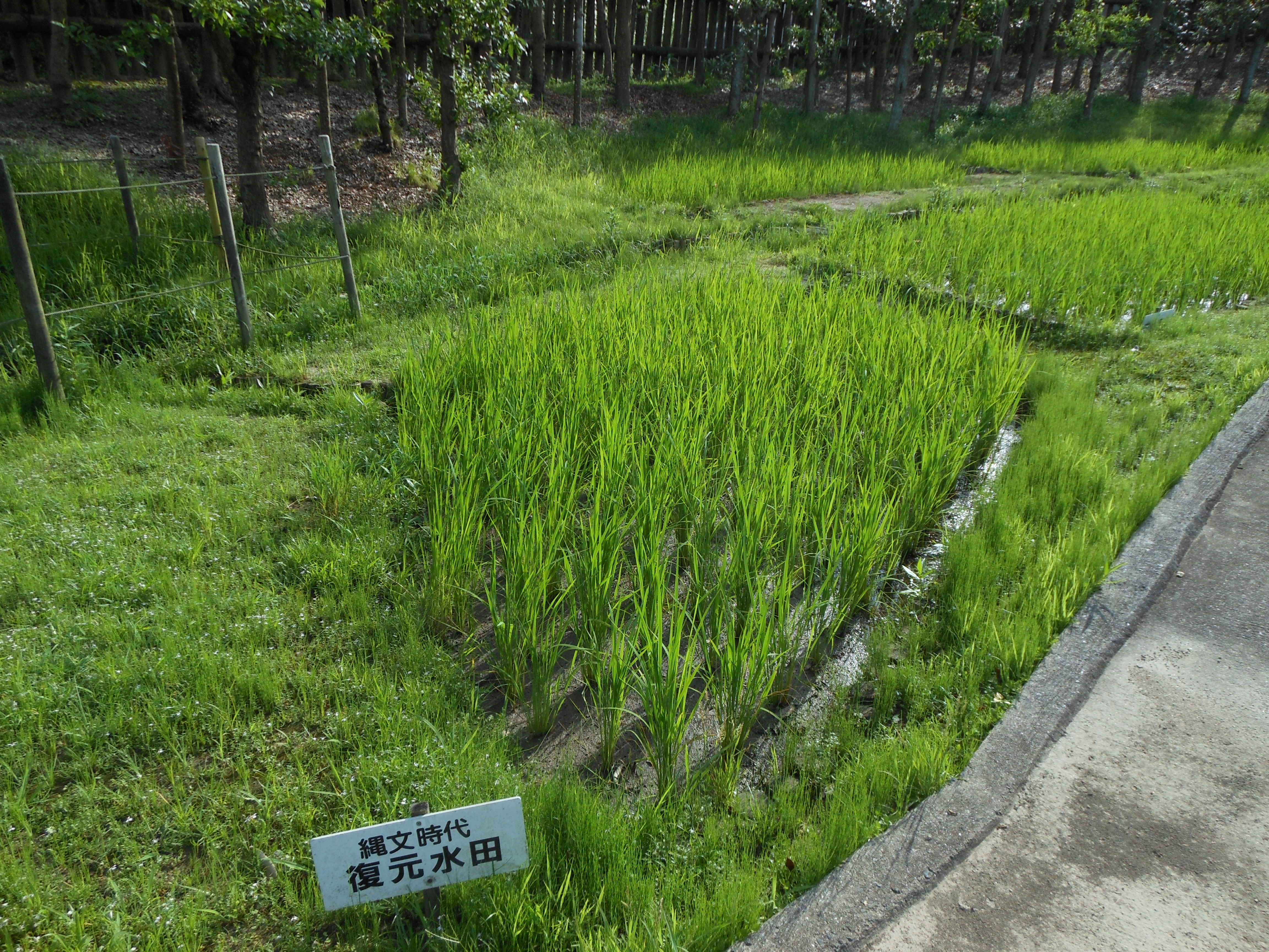 Field of ancient rice, Nabatake Site, Karatsu city, Saga prefecture, Japan.